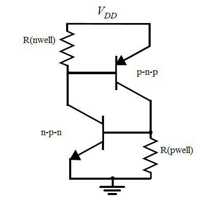 CMOS latchup equivalent circuit